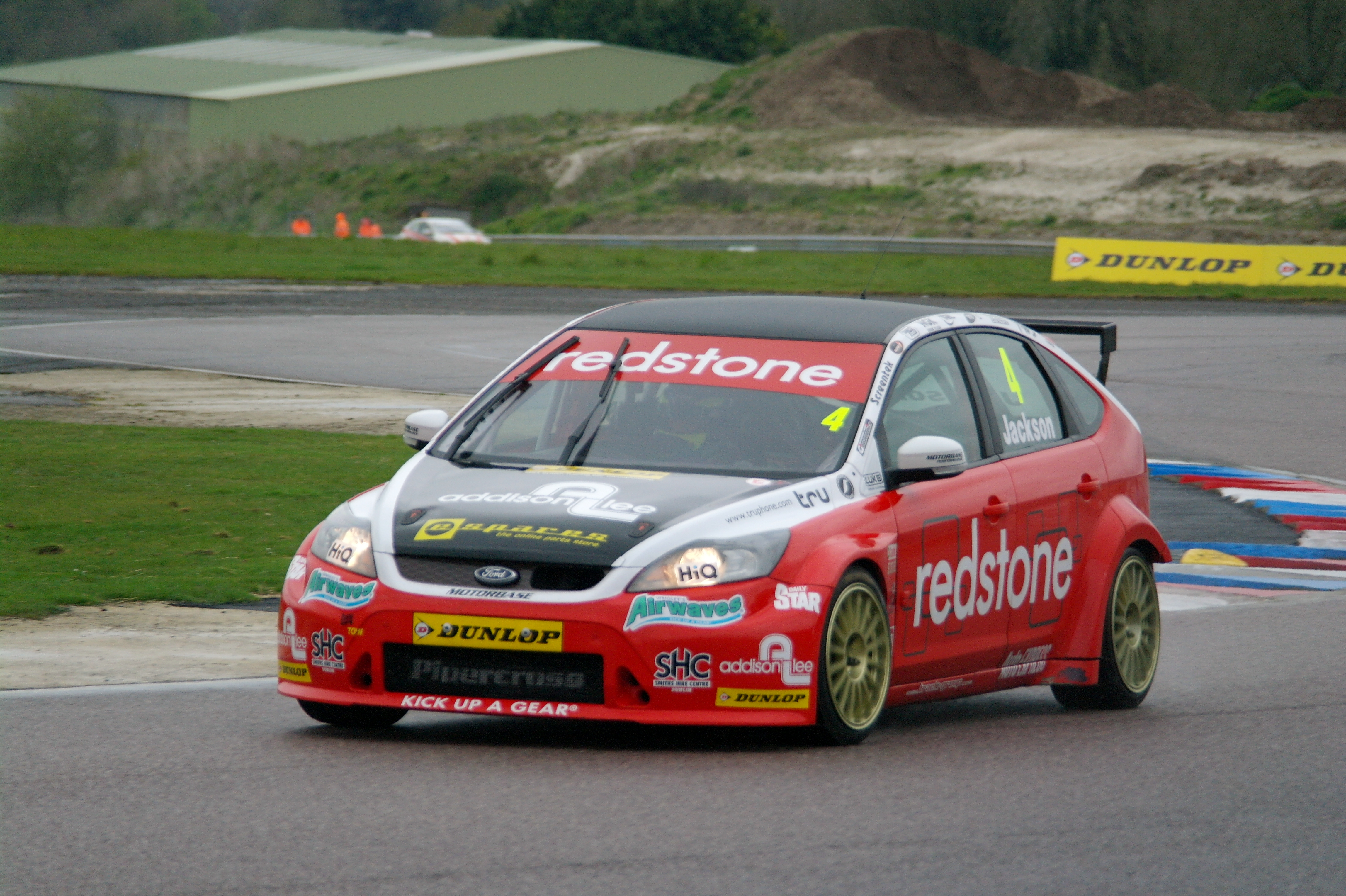 Mat Jackson driving for Redstone Racing in Free Practice 2 at Thruxton in the 2012 British Touring Car Championship season.